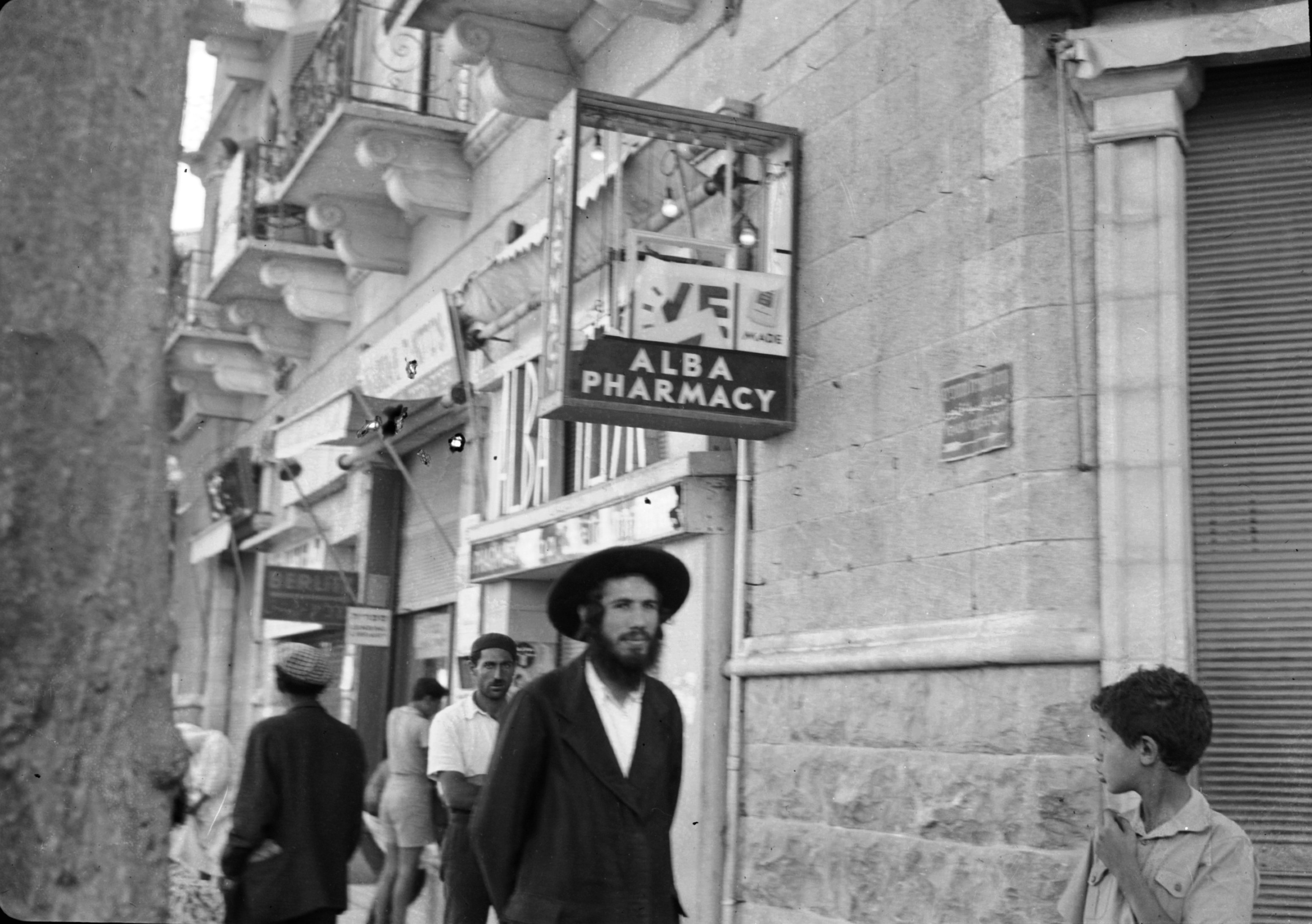 Jewish protest demonstration against Palestine White Paper (May 18 - 1939). Result of evening riot in Zion Circus, broken signs windows, etc. Alba Pharmacy, Jaffa Road 42, on the corner of HaHavatzelet